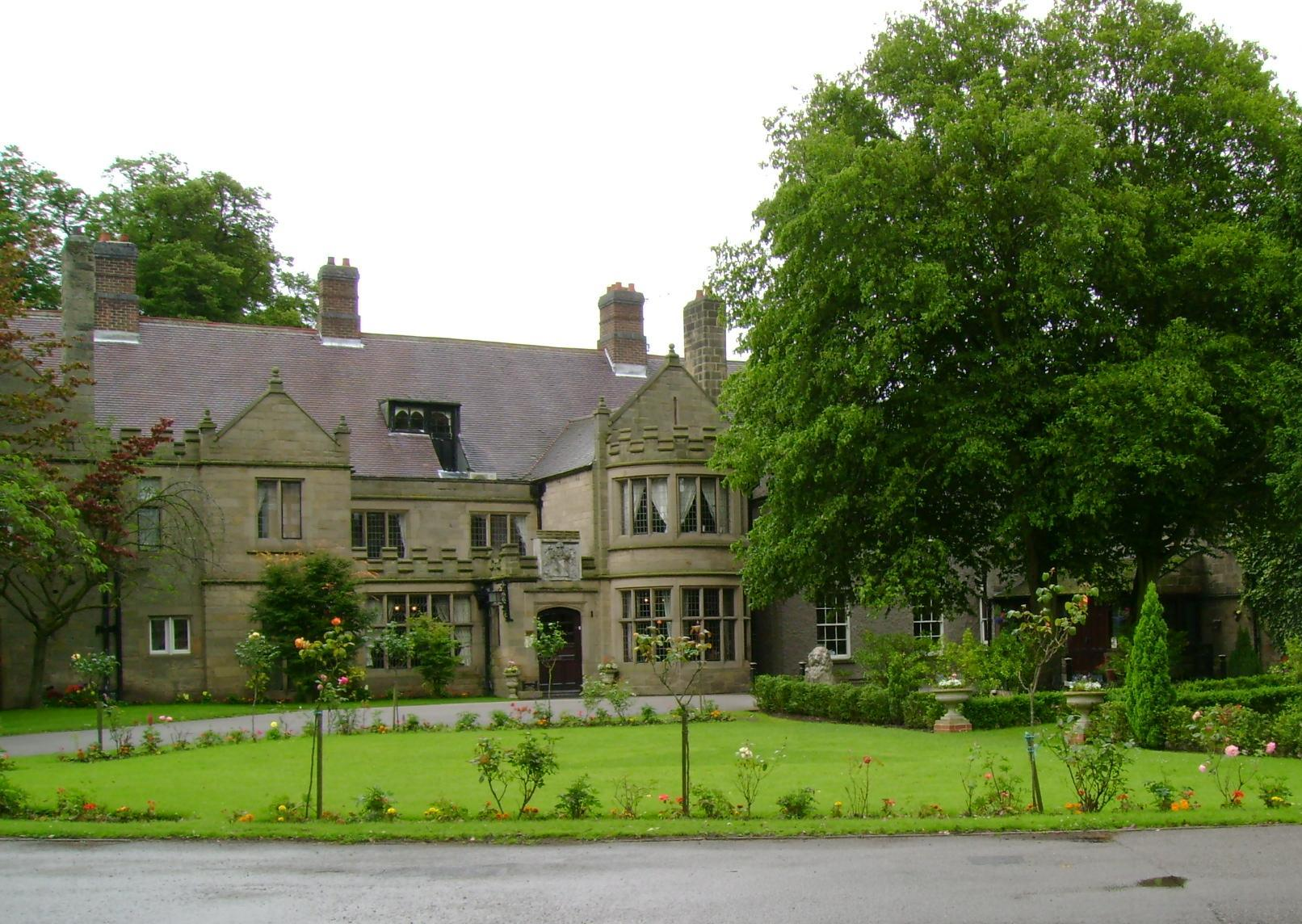 Photo I took of of Risley Hall, Derbyshire, UK.